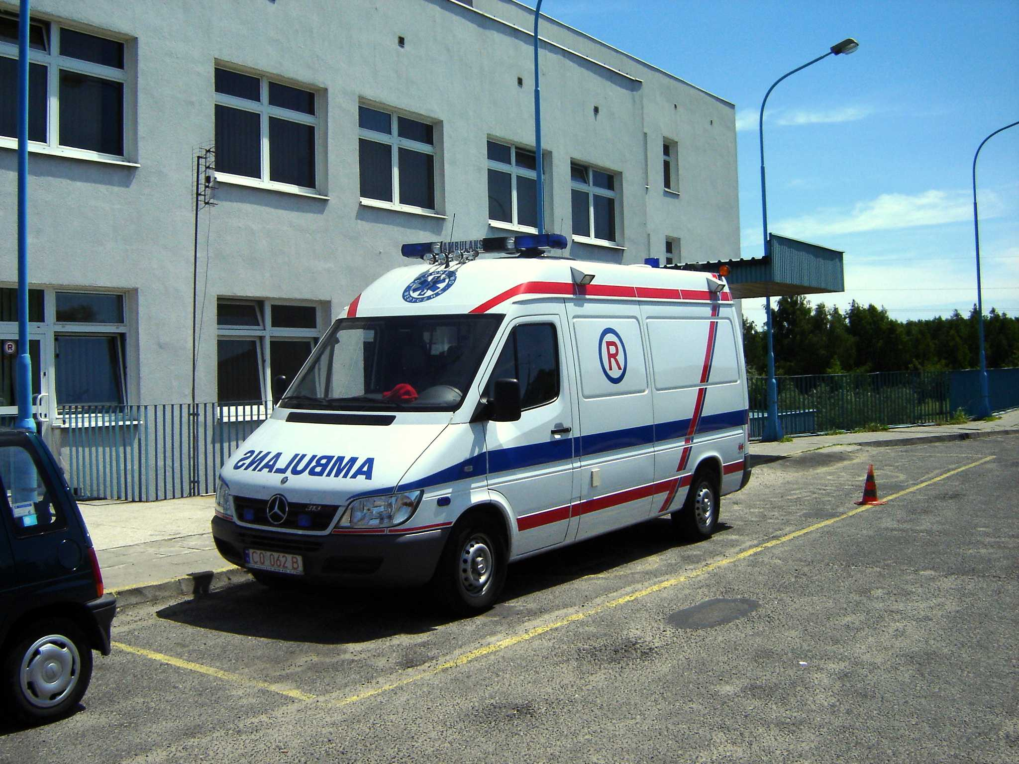 This ambulance and similar ones are being used throughout Poland/Europe. With "AMBULANS" in mirror writing ("SNALUBMA"). Author: Reytan